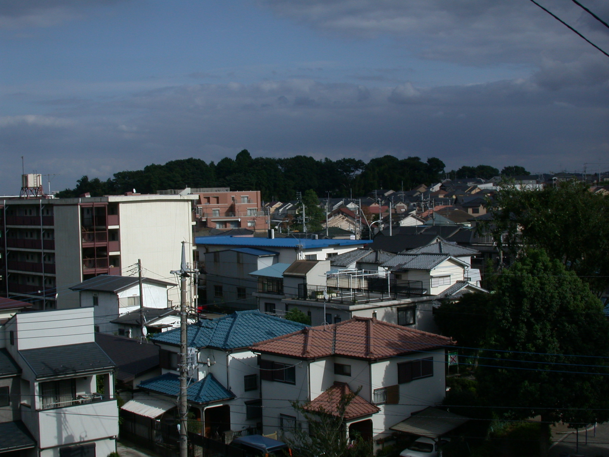 Enoshita Castle